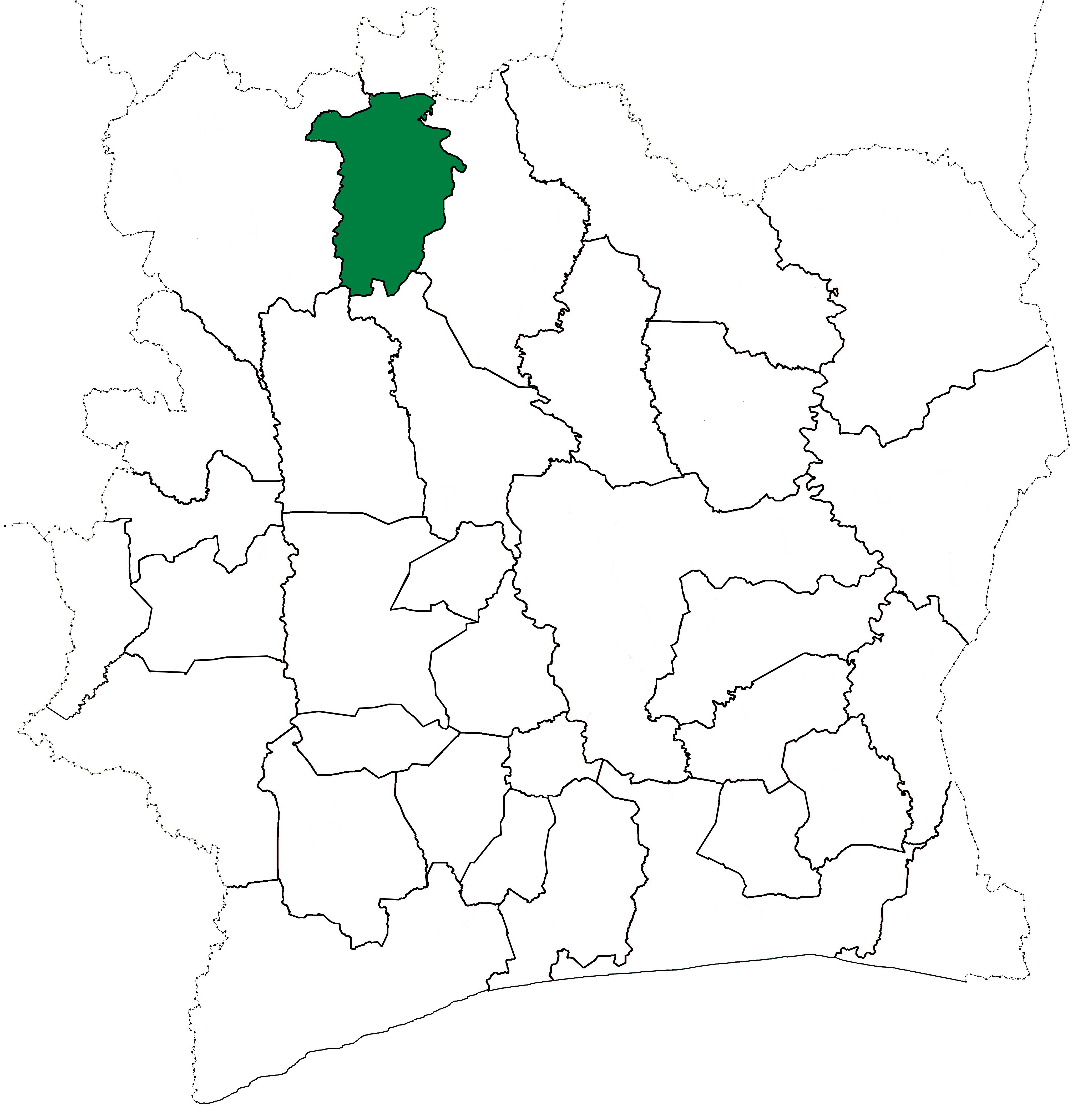 Locator map for Boundiali Department in Côte d'Ivoire in 1980. Boundiali Department kept these boundaries until 2008, but other subdivision boundaries began to change in 1988.